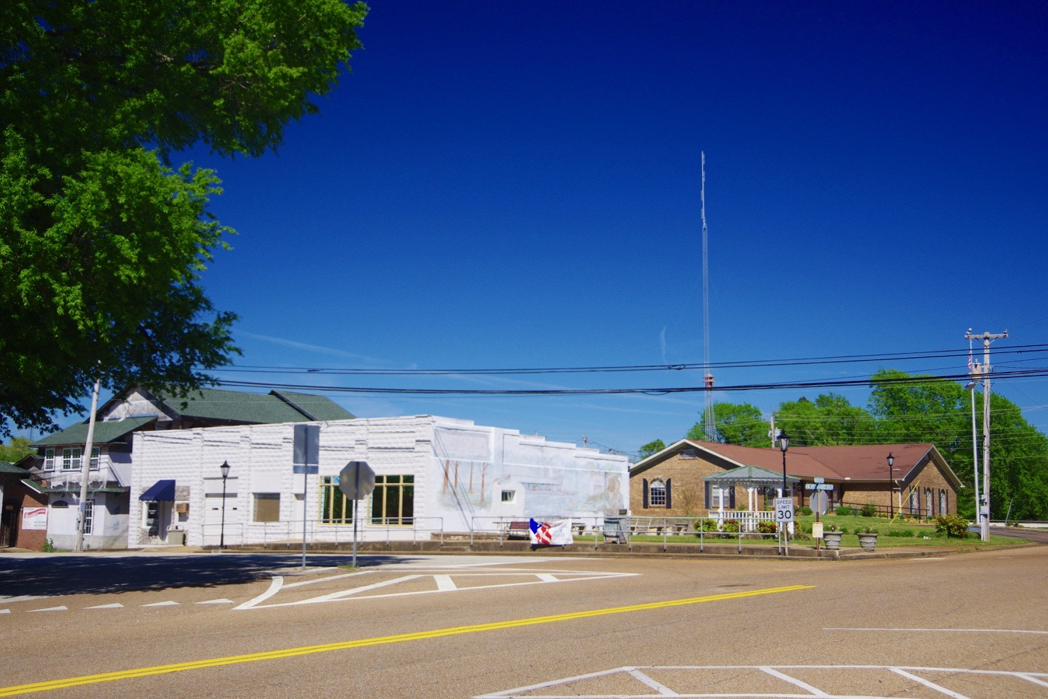 The intersection of Main Street and Pleasant Street in Decaturville, Tennessee, United States.